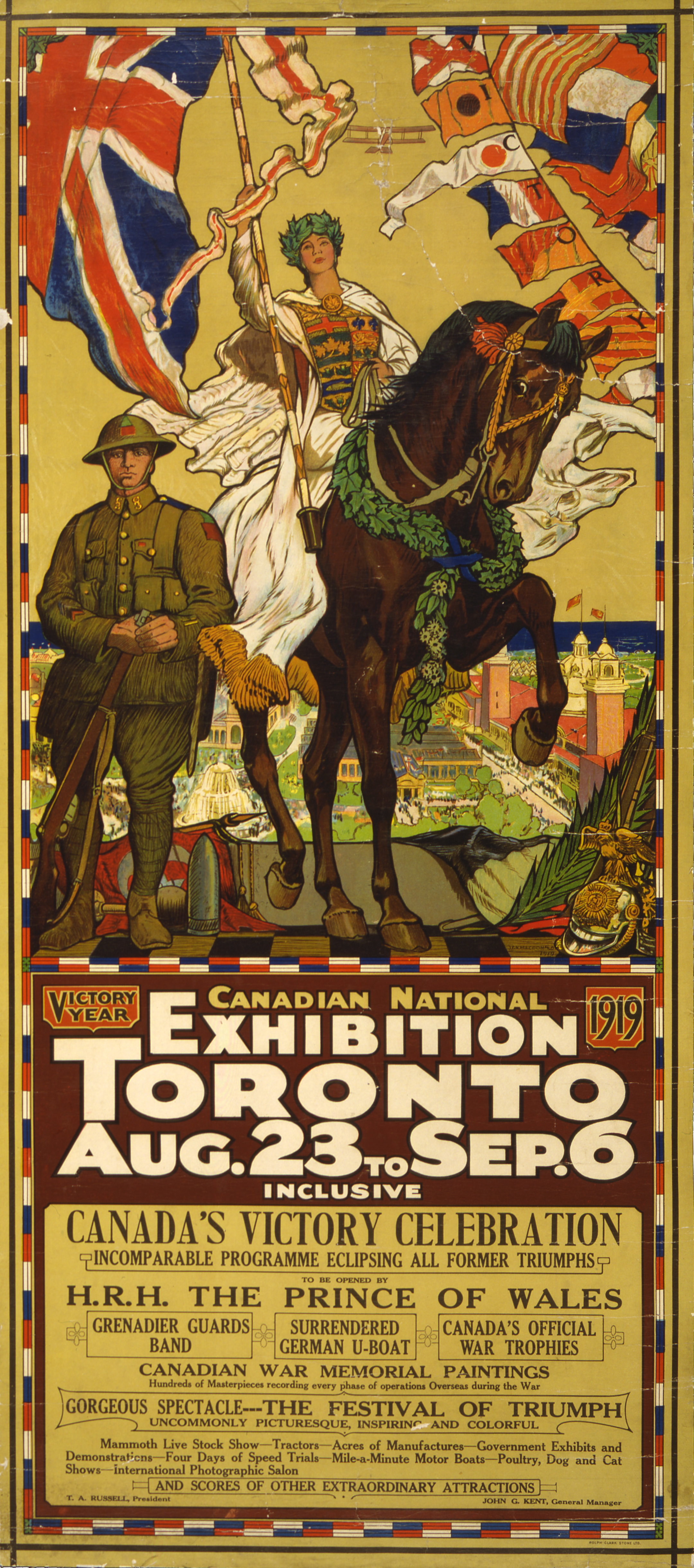 Canadian National Exhibition poster, Toronto, 1919.